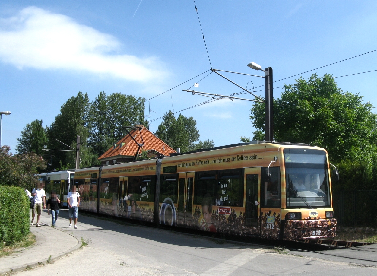 Tram 812 with coffee advertising in Schwerin (Germany) on ballon loop in Schwerin Lankow-Siedlung, Germany